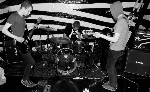 Adebisi Shank performing live with the band in March 2009. (from left to right; Larry Kaye, Michael Roe, Vincent McCreith)